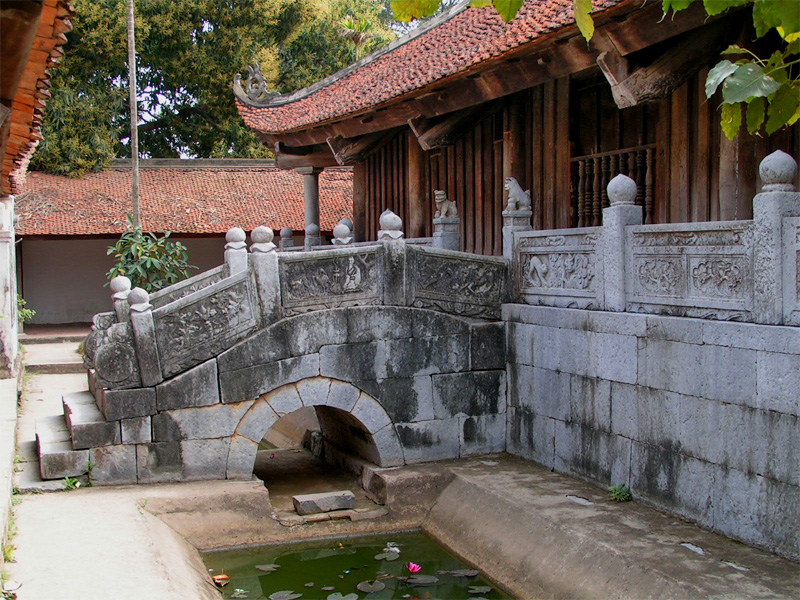 But Thap Pagoda, Bac Ninh Province, Vietnam.